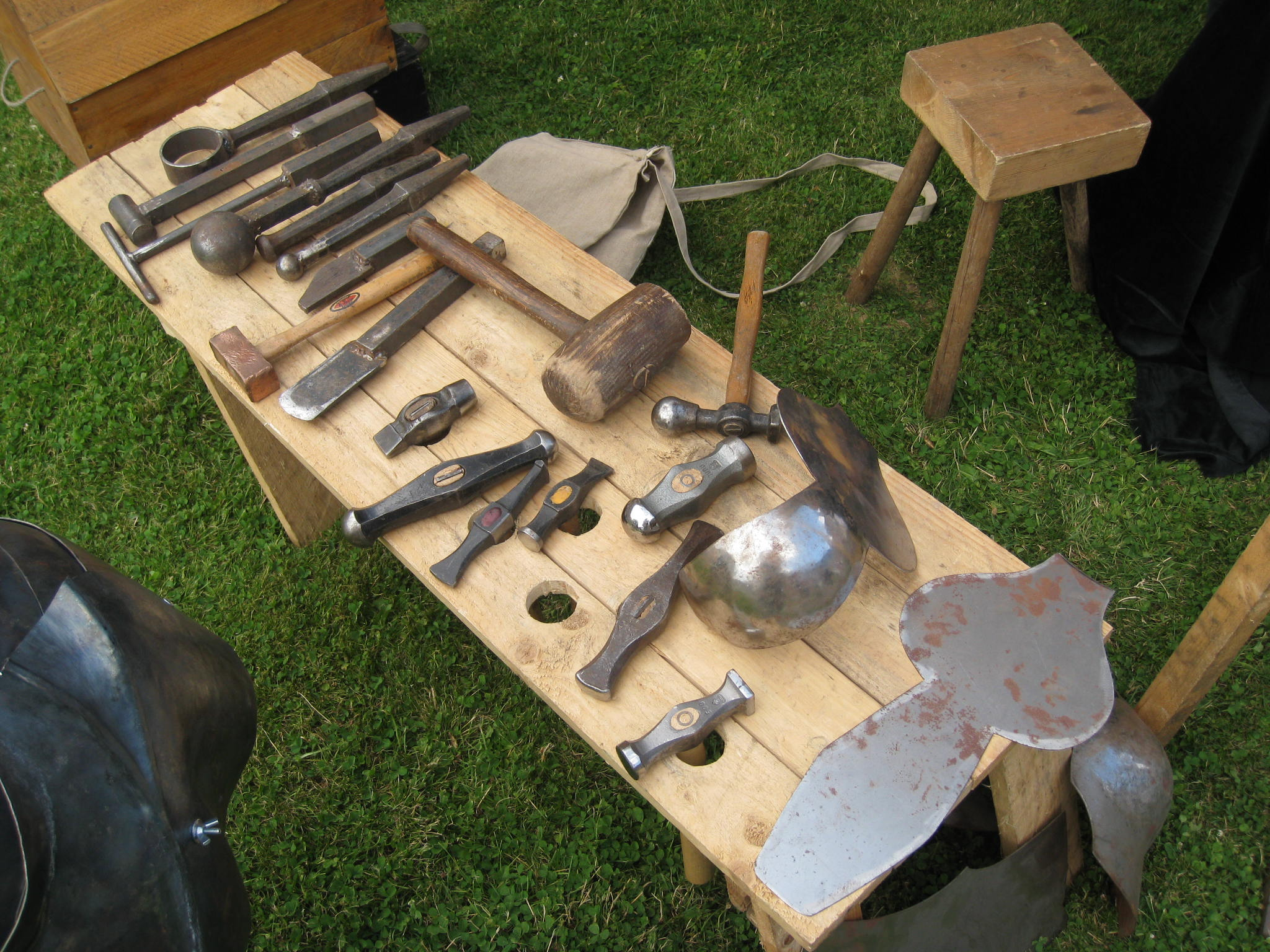 Werktuigen harnassmid